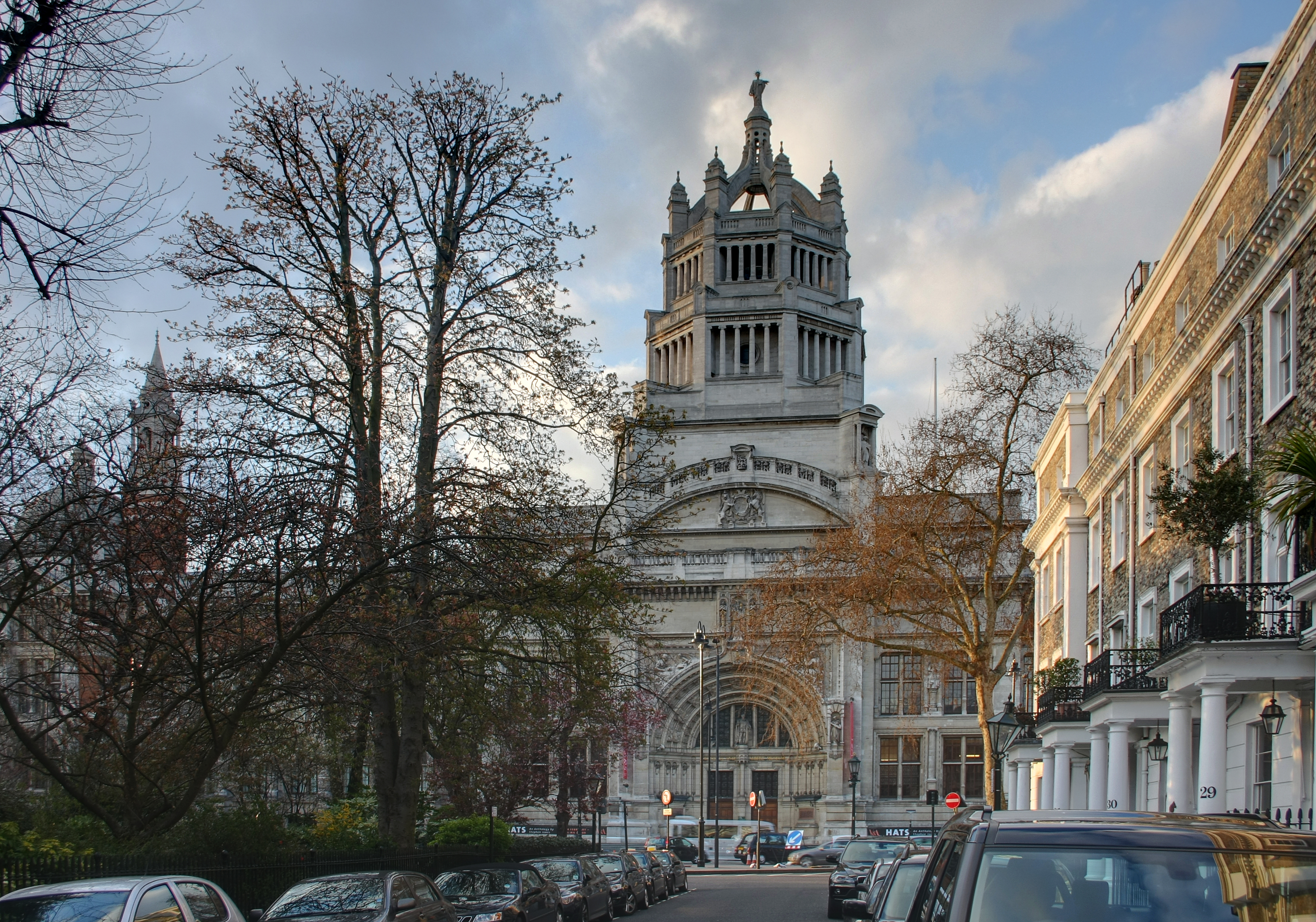 Victoria and Albert Museum in London